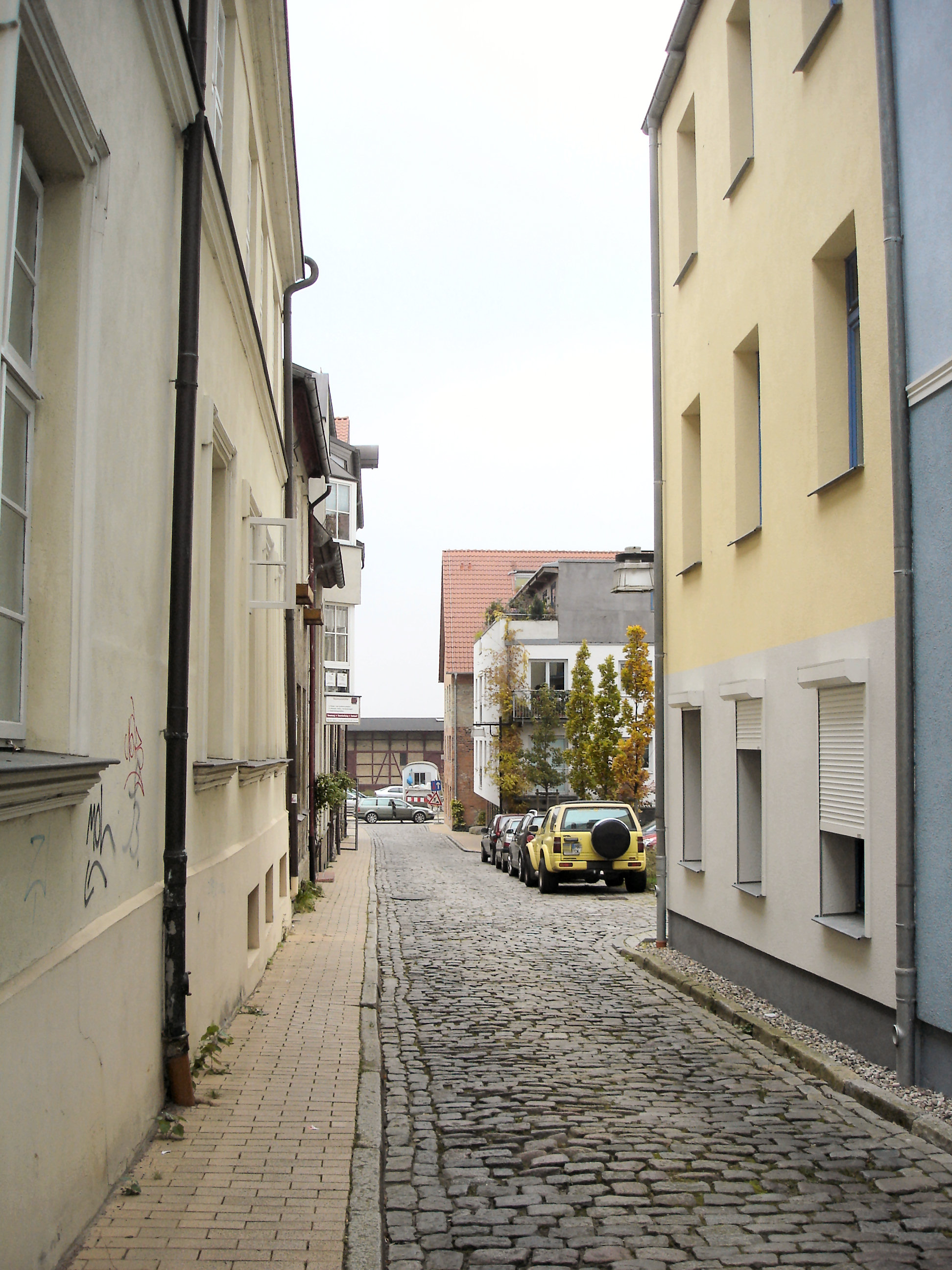 Street in the historic city of Rostock